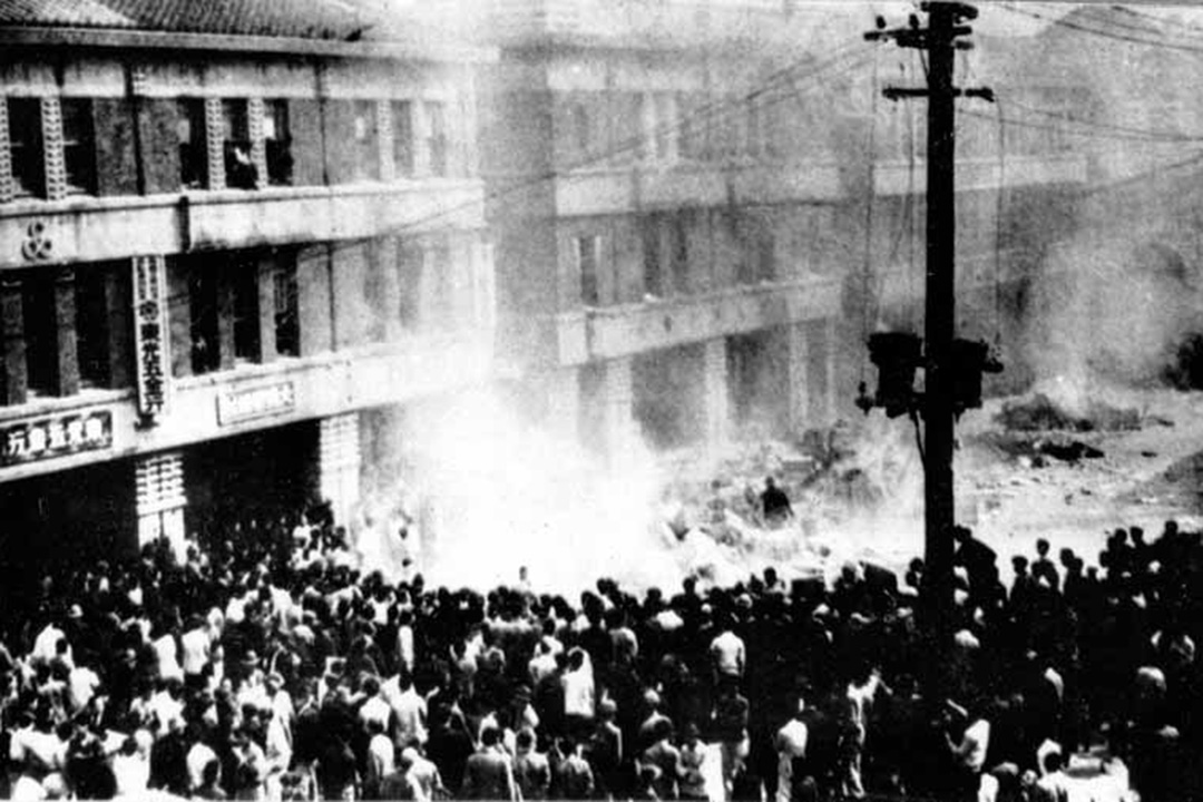 Taipei Branch of the Bureau of Monopoly, was occupied by angry crowd.